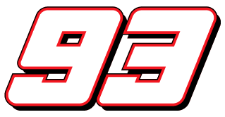 Startnumber Motorbike Marc Márquez 2013